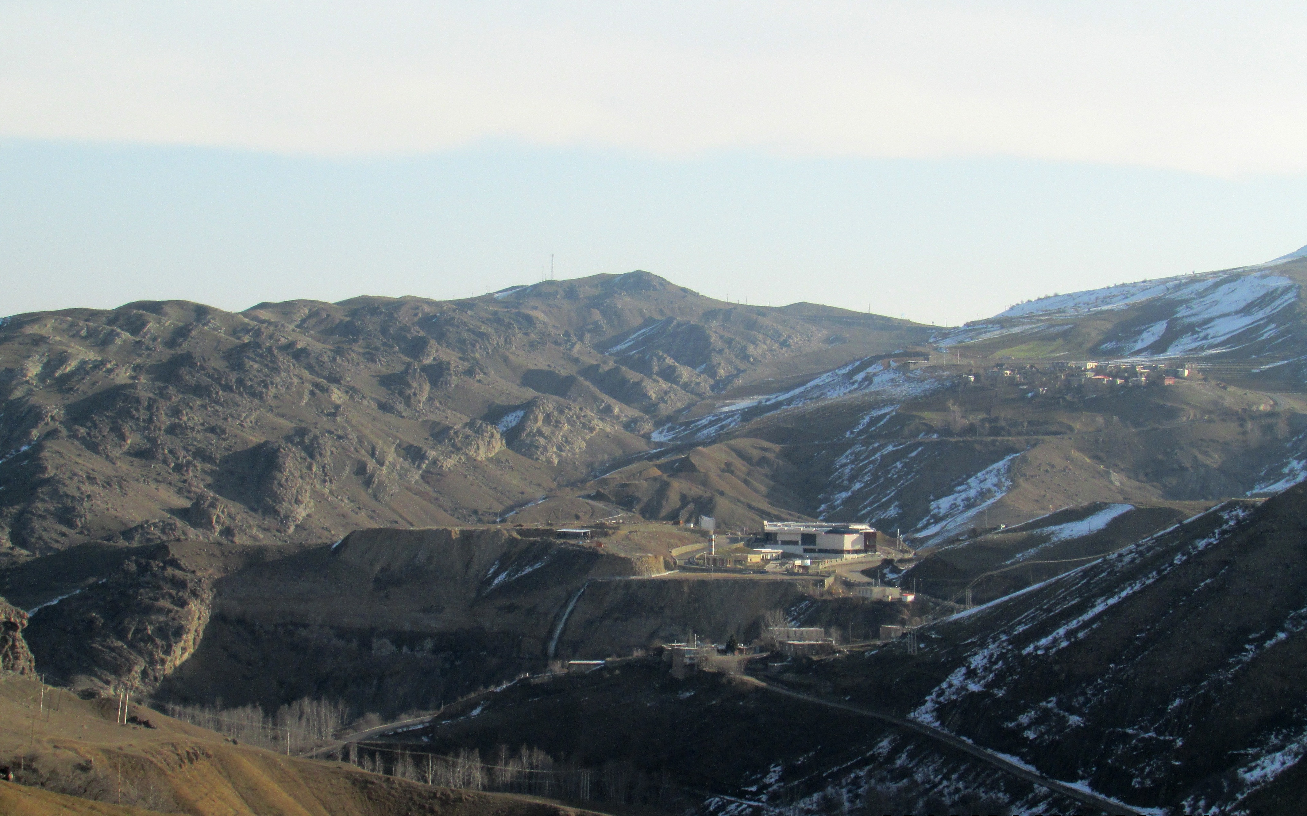 A photo showing the Hot spring therapeutic facility in Motaalleq village.